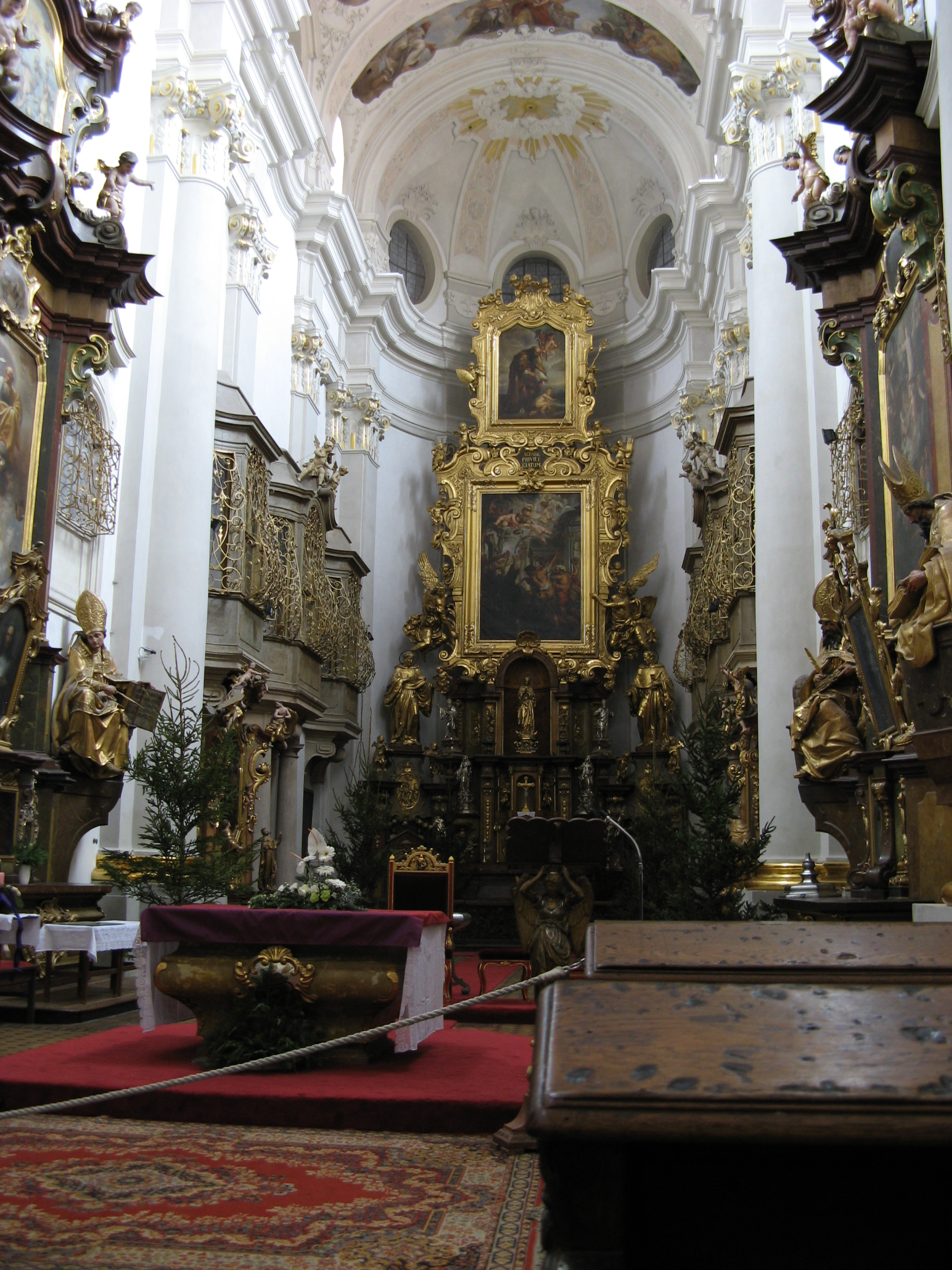 Church of St. Thomas in Lesser Town, Prague. Altar.